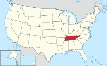 Map of the United States with the large state of Tennessee in red.